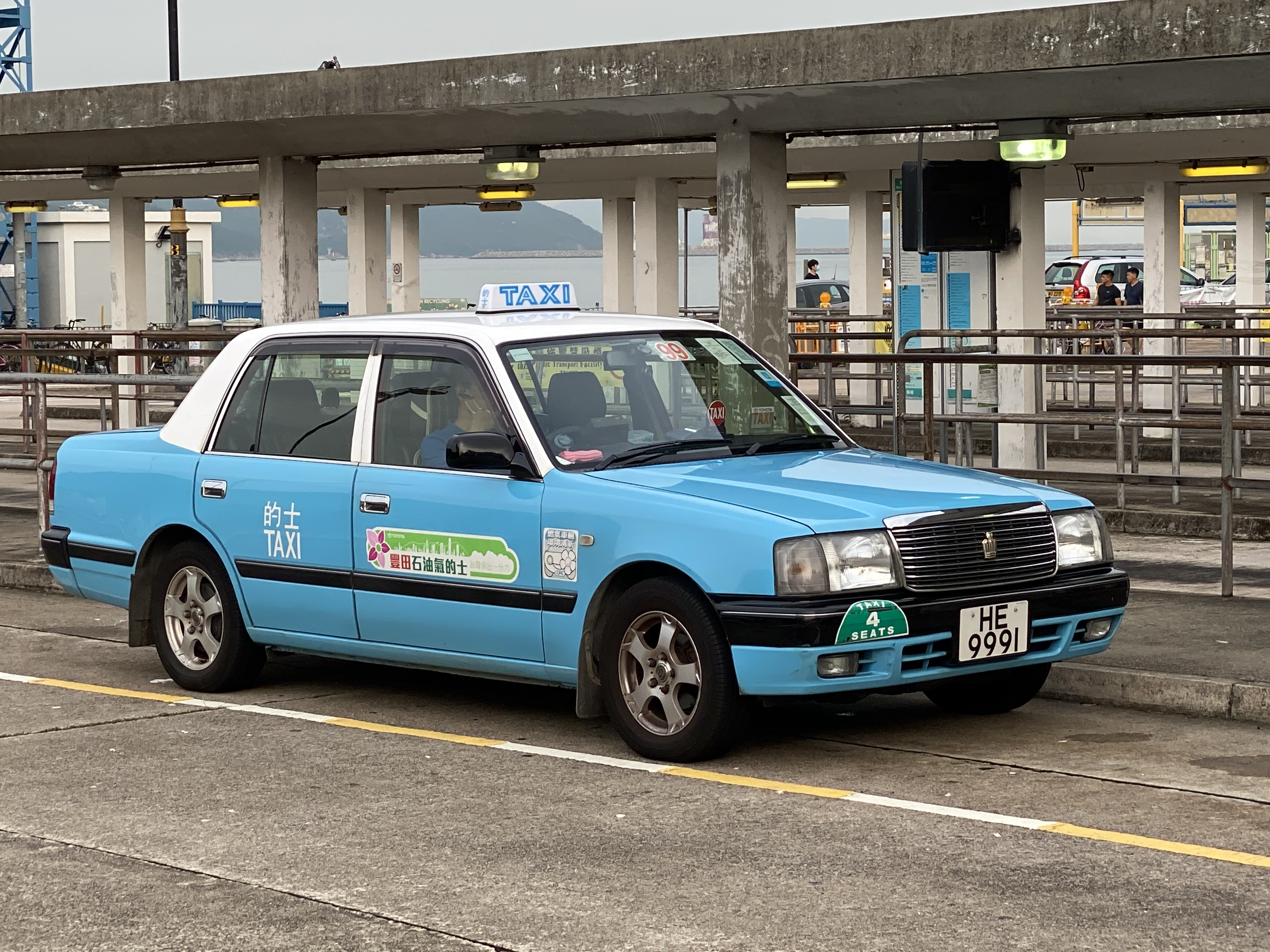 中文（香港）: This photo is taken in Mui Wo.